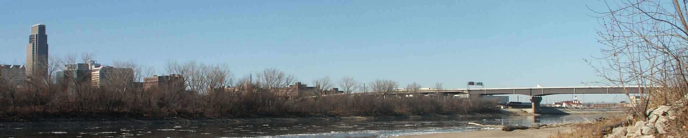 The Interstate-480 Bridge across the Missouri River into Omaha, Nebraska from the south in Council Bluffs, Iowa. Photo by poster in December 2006.